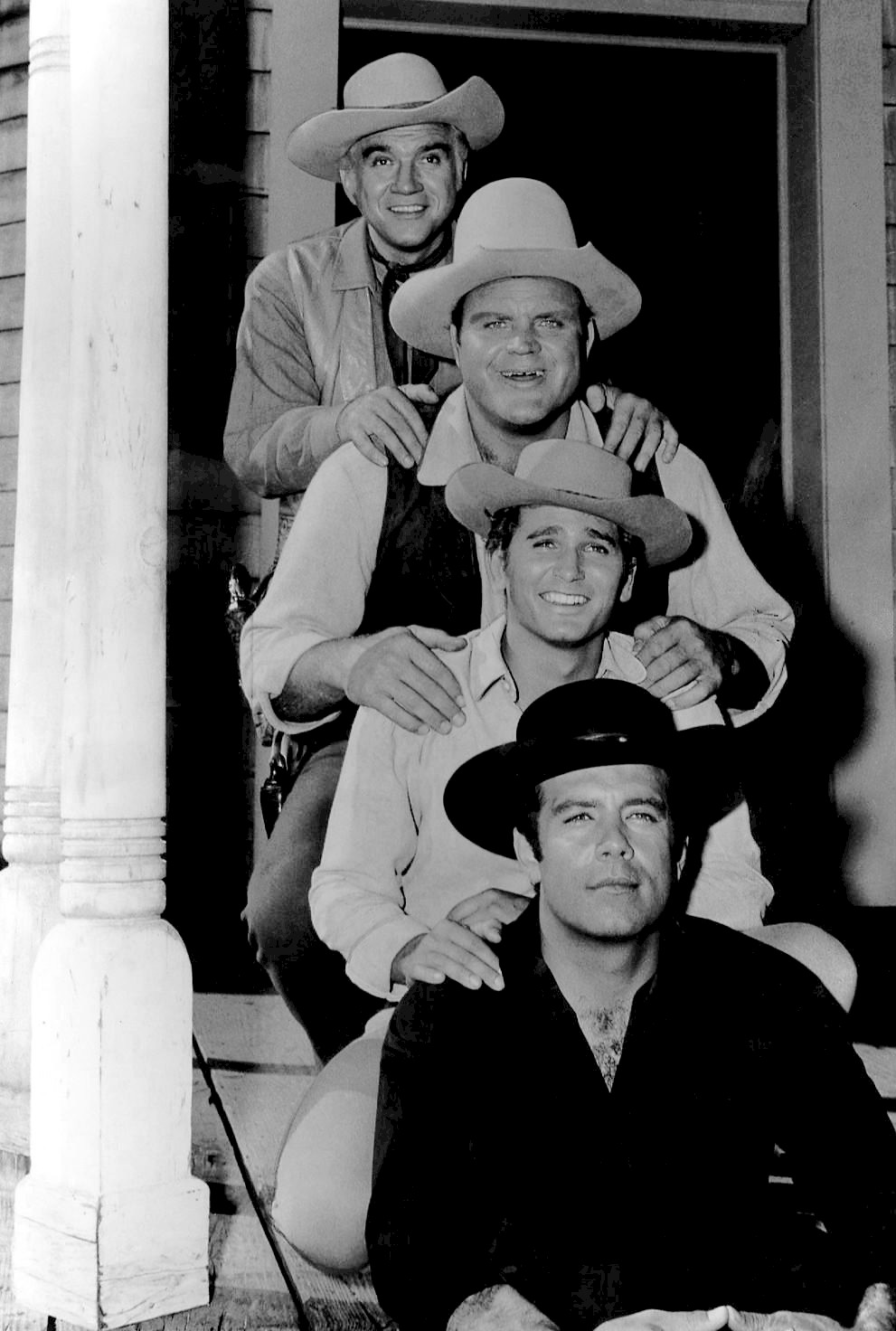 Photo of the full cast of the television program Bonanza on the porch of the Pondarosa from 1962. From top: Lorne Greene, Dan Blocker, Michael Landon, Pernell Roberts. This episode, "Miracle Maker", aired in [ May 1962.